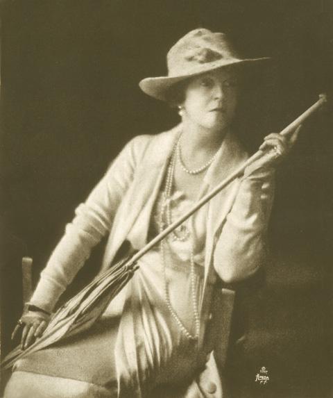 Lady Duff Gordon, photographed by A. Peda, New York, 1917 (Randy Bryan Bigham Collection)